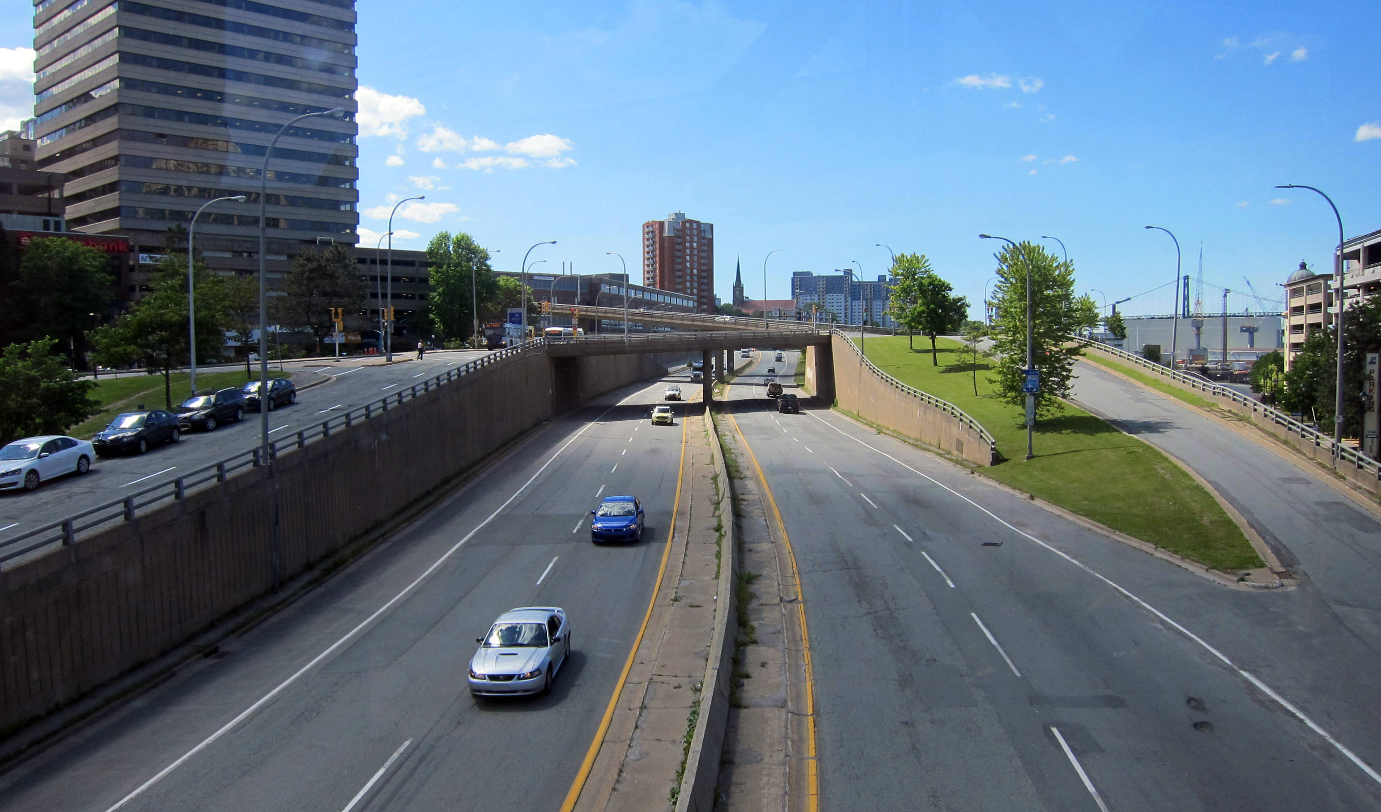 Cogswell Interchange, Halifax, Nova Scotia. Looking north.